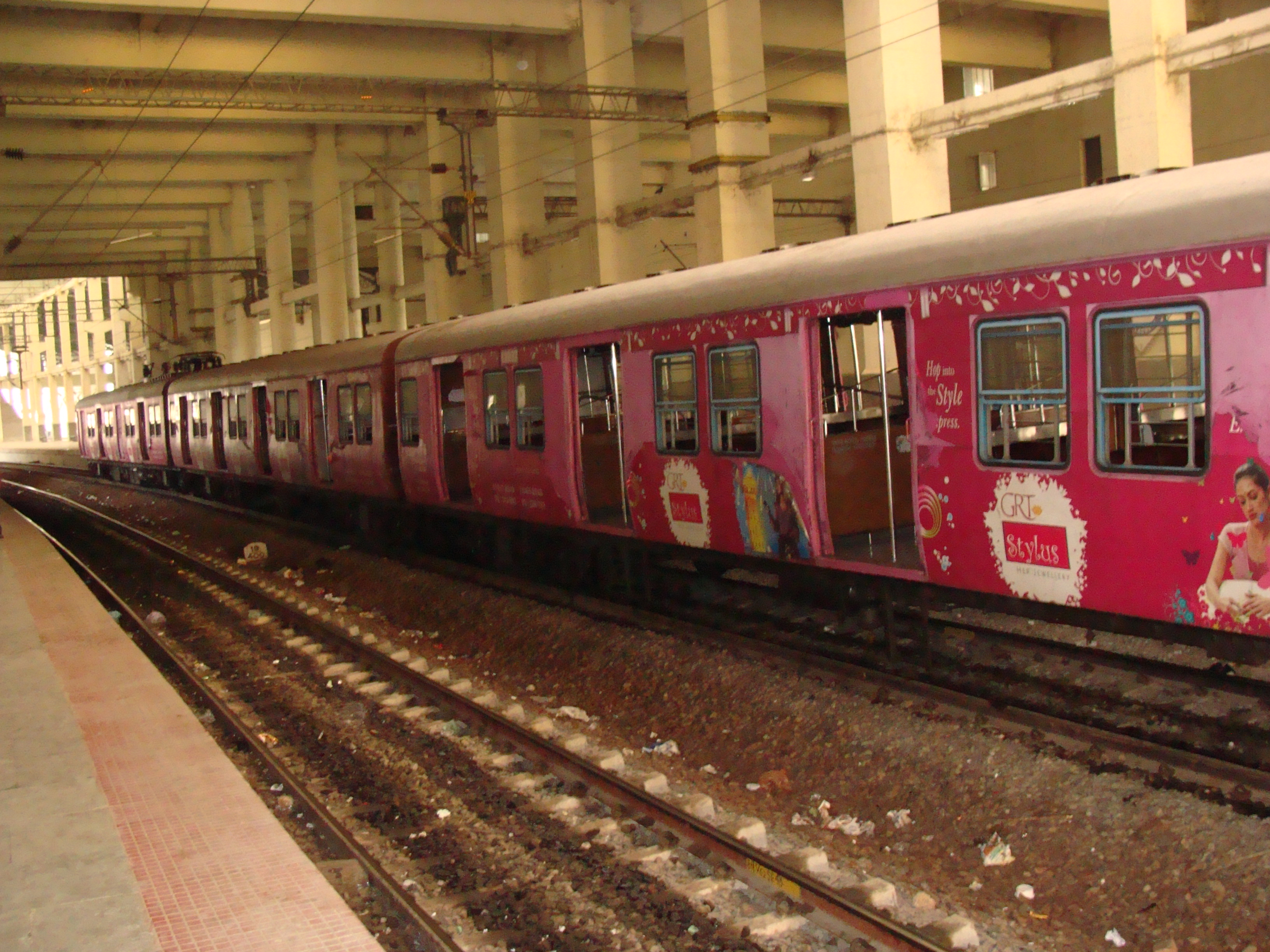 MRTS coach in velachery station